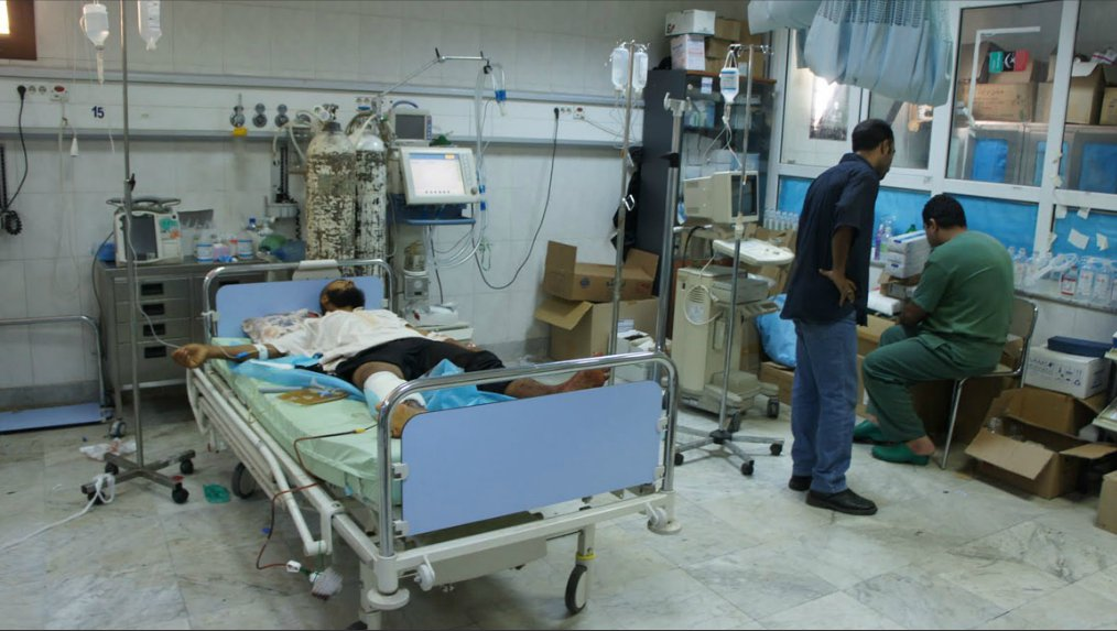 A rebel fighter at the Zawiya Hospital, central Tripoli.